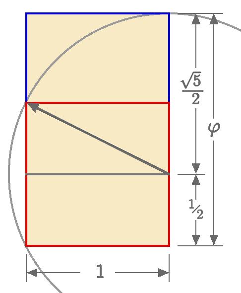 Revised, not so black annotations, some smaller text, of Golden Rectangle Construction.png